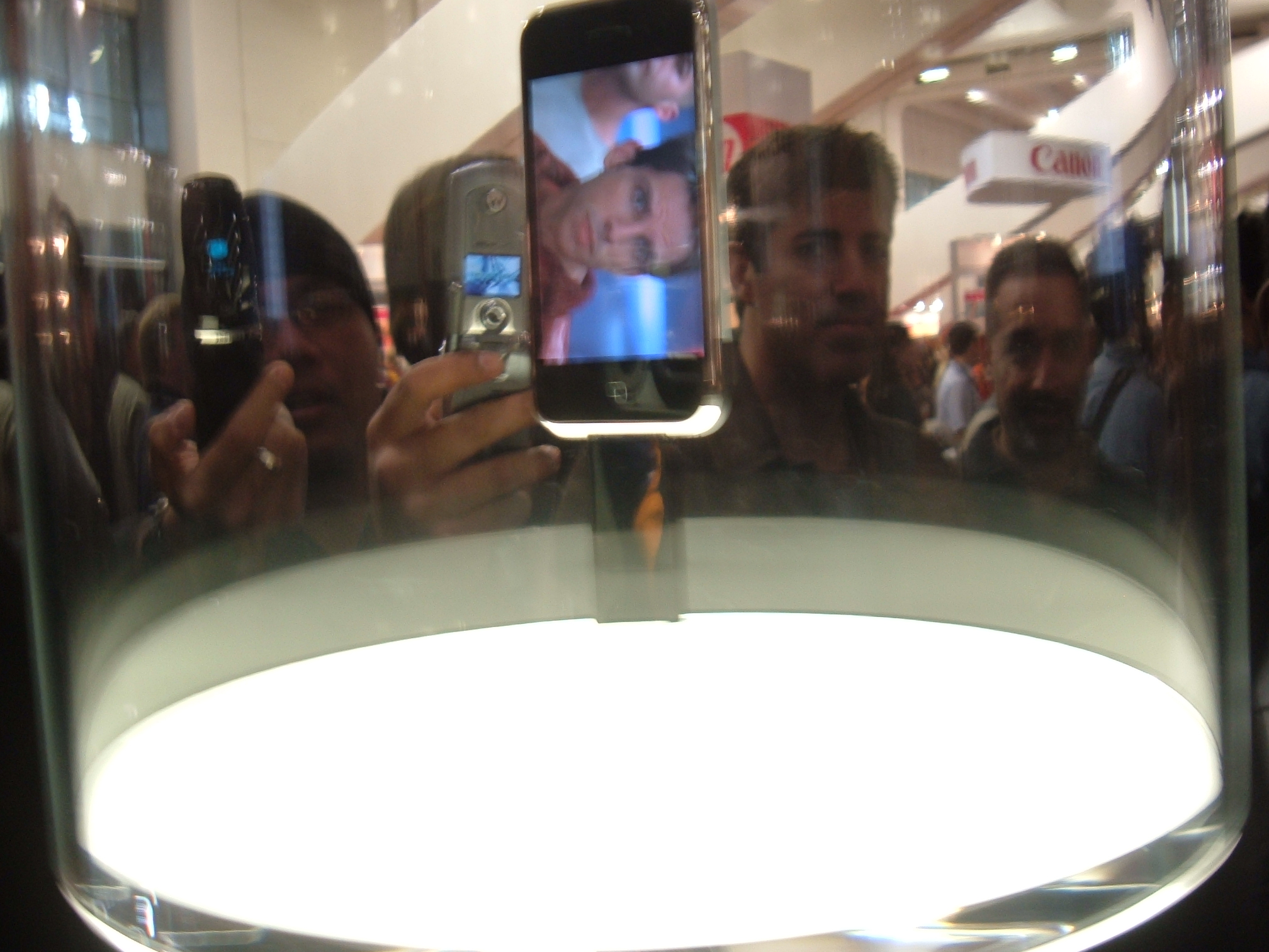 First public showing of the Apple iPhone at the 2007 MacWorld show in San Fransisco. Note: time is EST. See File:Albert S. Samuels street clock SFO.agr.jpg taken same day with same camera for validation of camera time, about 15 min slow if Samuels clock was accurate.